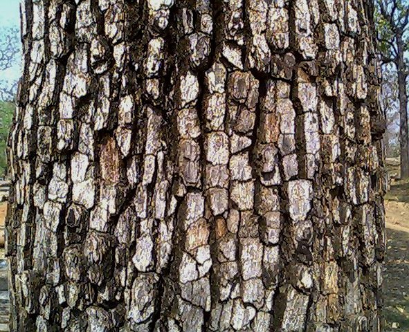 Bark of Diospyros melanoxylon tree ocurring in Southern Tropical Moist/Dry Deciduous Forests in Maharashtra, India.